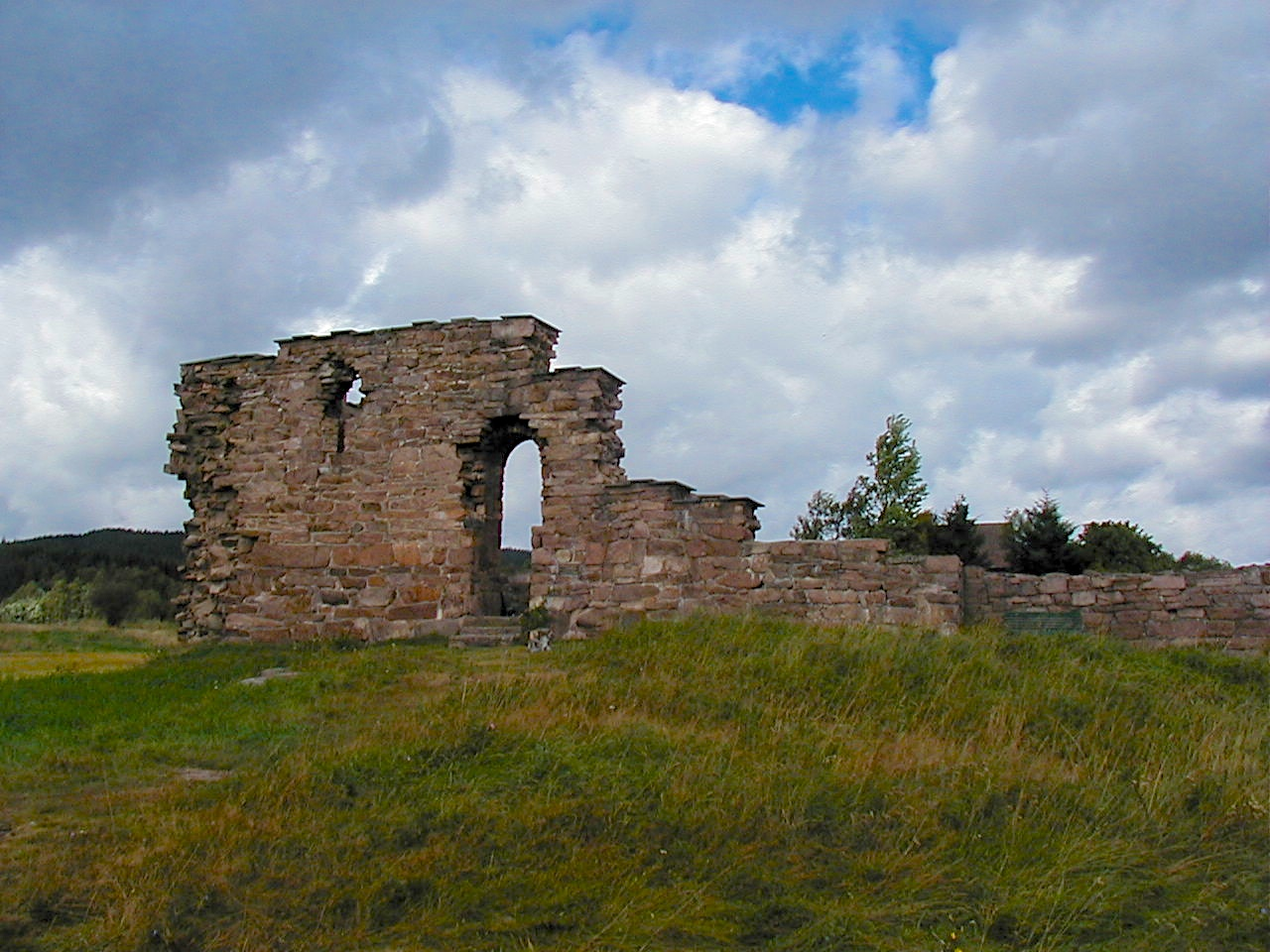 This is a ruin of Margaretha kirken from the 1200s.